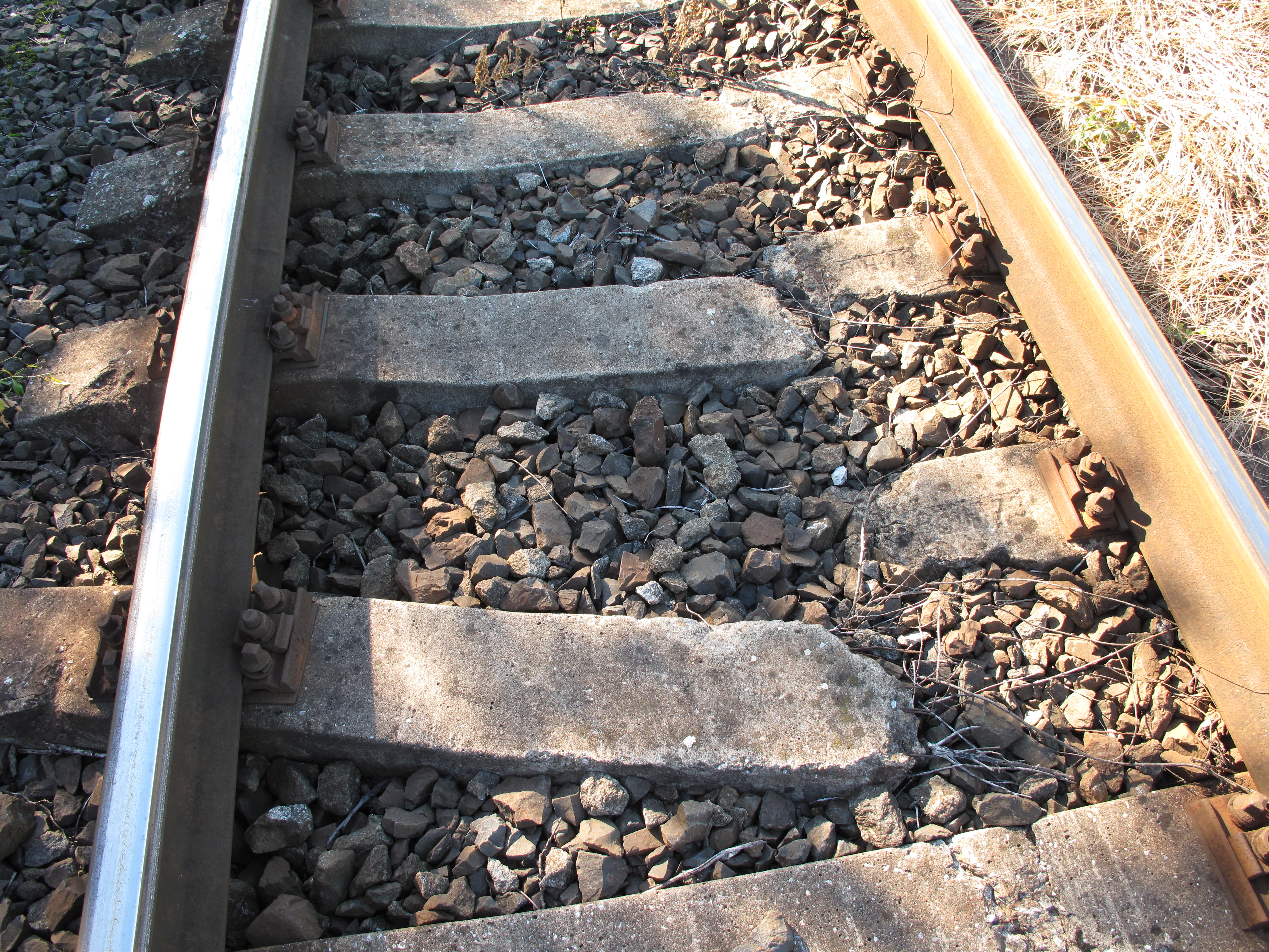 Railroad 092 (Železniční trať Neratovice - Kralupy nad Vltavou), detail of destroyed concrete sleepers near Netřeba village, Mělník District, Czech Republic.